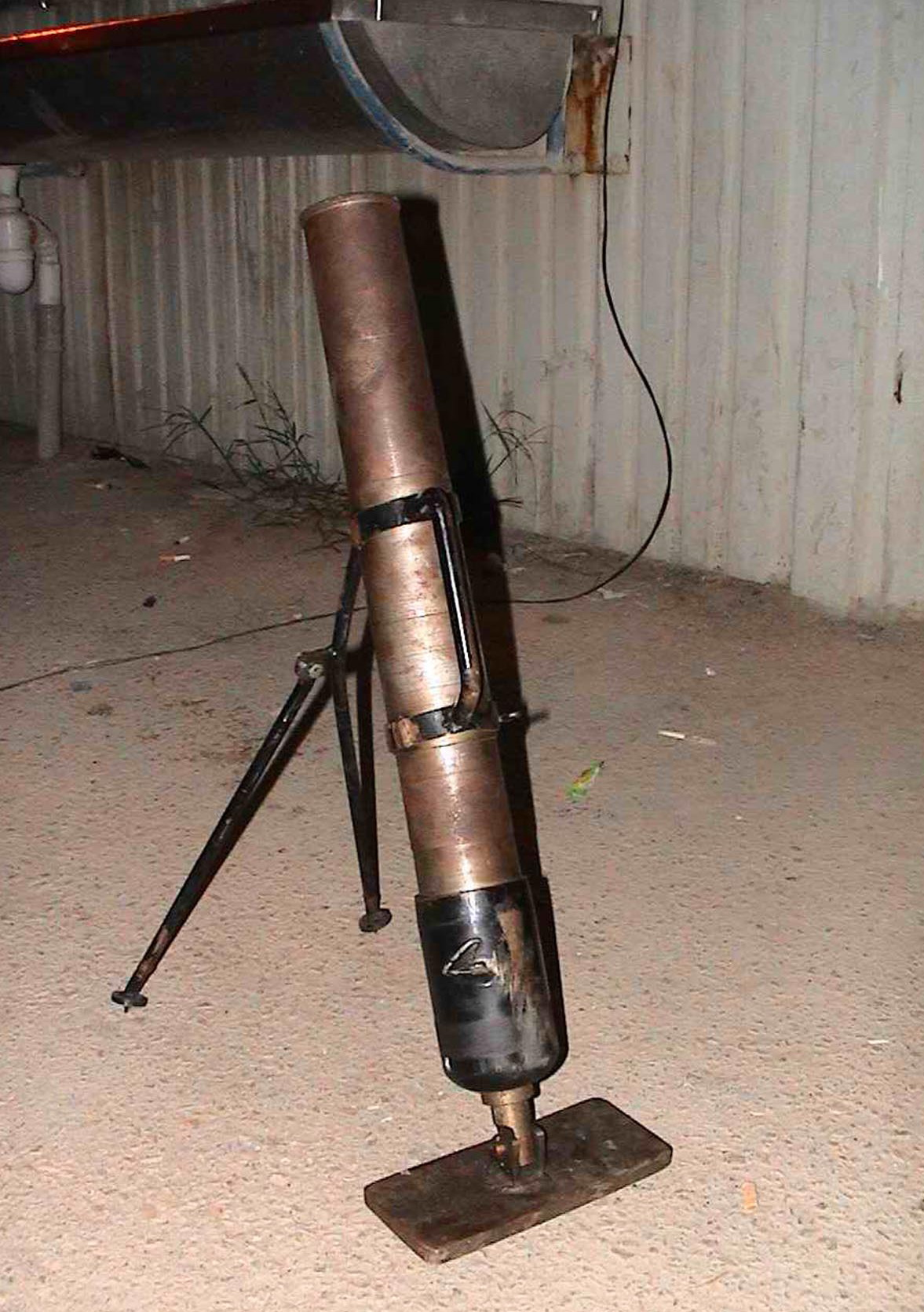 November 18, 2002 An IDF and Border Police forces joint operation in Tel Al Hawa in the southern part of Gaza City revealed an explosives laboratory, hidden inside the headquarters of the Palestinian Preventive Security Force. Inside the laboratory, forces found large amounts of explosives, machinery used to create weapons, and a Qassam rocket. The Israel Defense Forces Facebook • blog • Twitter